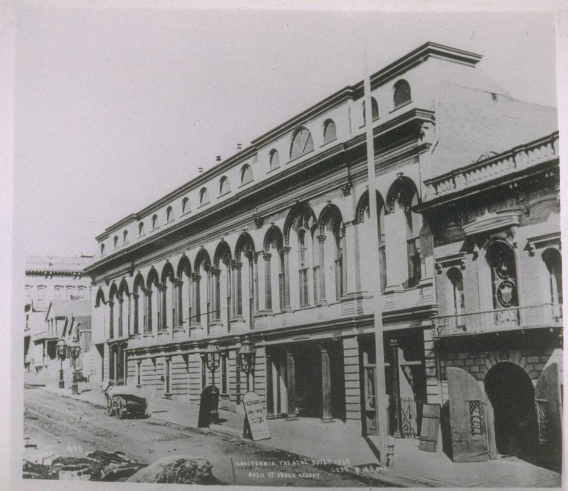 California Theatre (San Francisco). Bush Street between Kearny and Dupont. Engine 11 on right. [California Theater was replaced by the California Hotel later, which had brick chimneys on the east wall next to the firehouse. The morning of the earthquake, the chimneys fell through the firehouse to the basement, causing the death of the fire chief, Dennis Sullivan, and {the injury of} his wife. Throughout the fire, the various fire companies were on their own.] Ca. 1870. (The California Theater cost $125,000 to build.) Identifier: 37 Collection: Roy D. Graves Pictorial Collection SERIES 1: SAN FRANCISCO VIEWS. Subseries 1: San Francisco, pre 1906. Volume 3: Pioneer San Francisco Contributing Institution: The Bancroft Library. University of California, Berkeley.